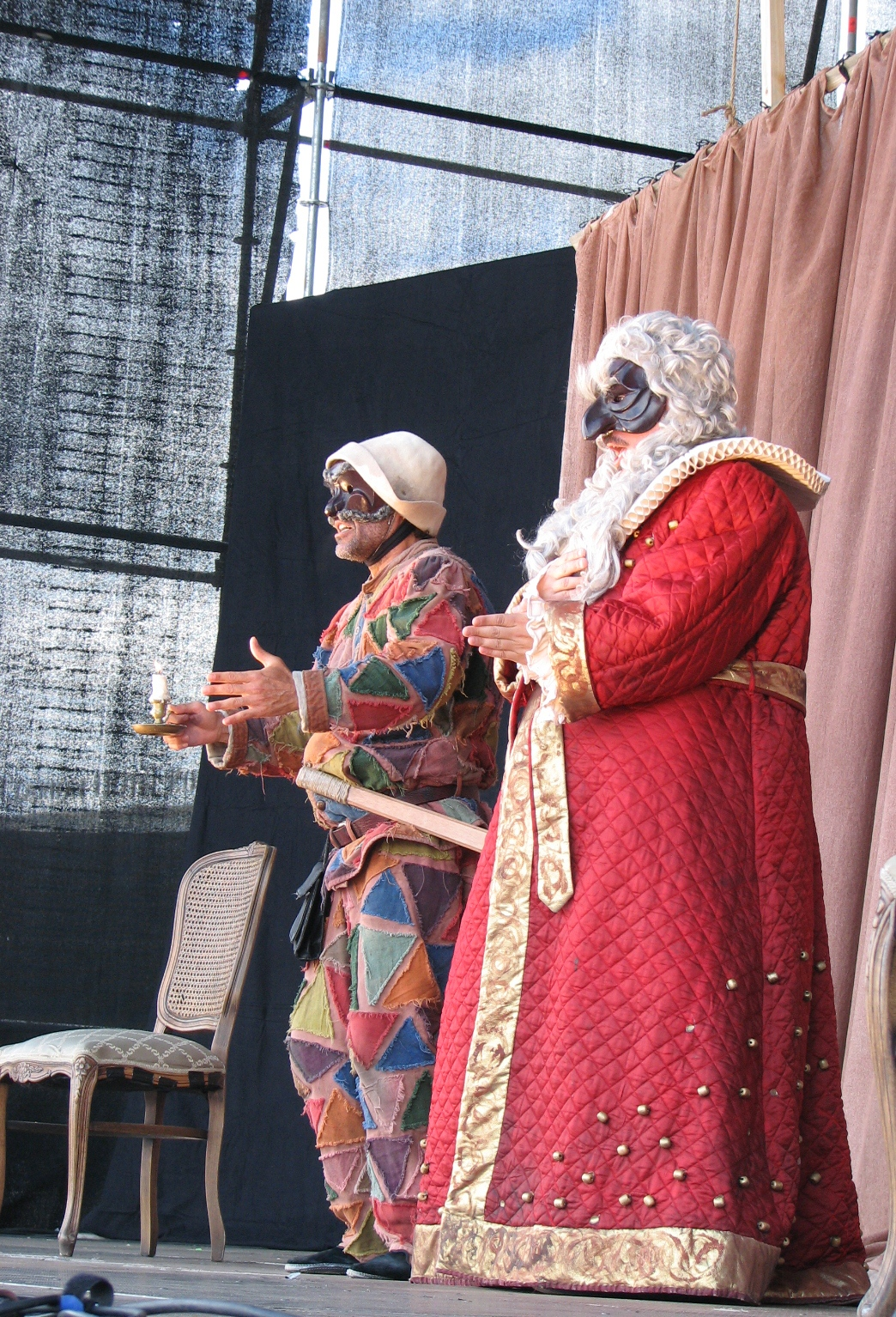 Water carnival "„L'Arlecchino don Giovanni"